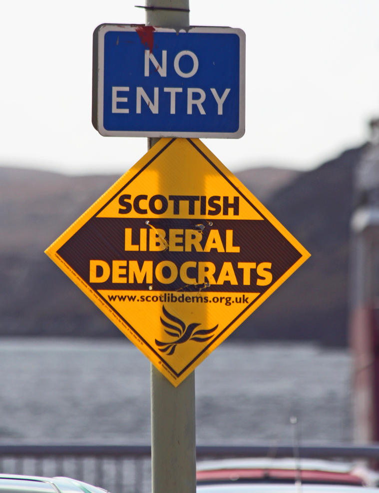 A portentiously positioned election sign put up by the Scottish Liberal Democrats in Stornoway, in the Na h-Eileanan an Iar constituency, Scotland, for the United Kingdom general election, 2010. It was photographed on the first full day of campaigning.